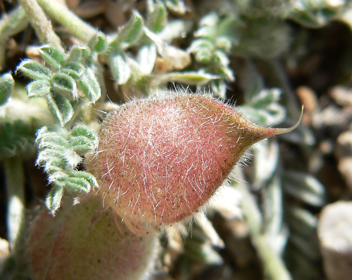 Oxytropis oreophila var. oreophila near the North Loop trail, Spring Mountains, southern Nevada (elev. about 2700 m)